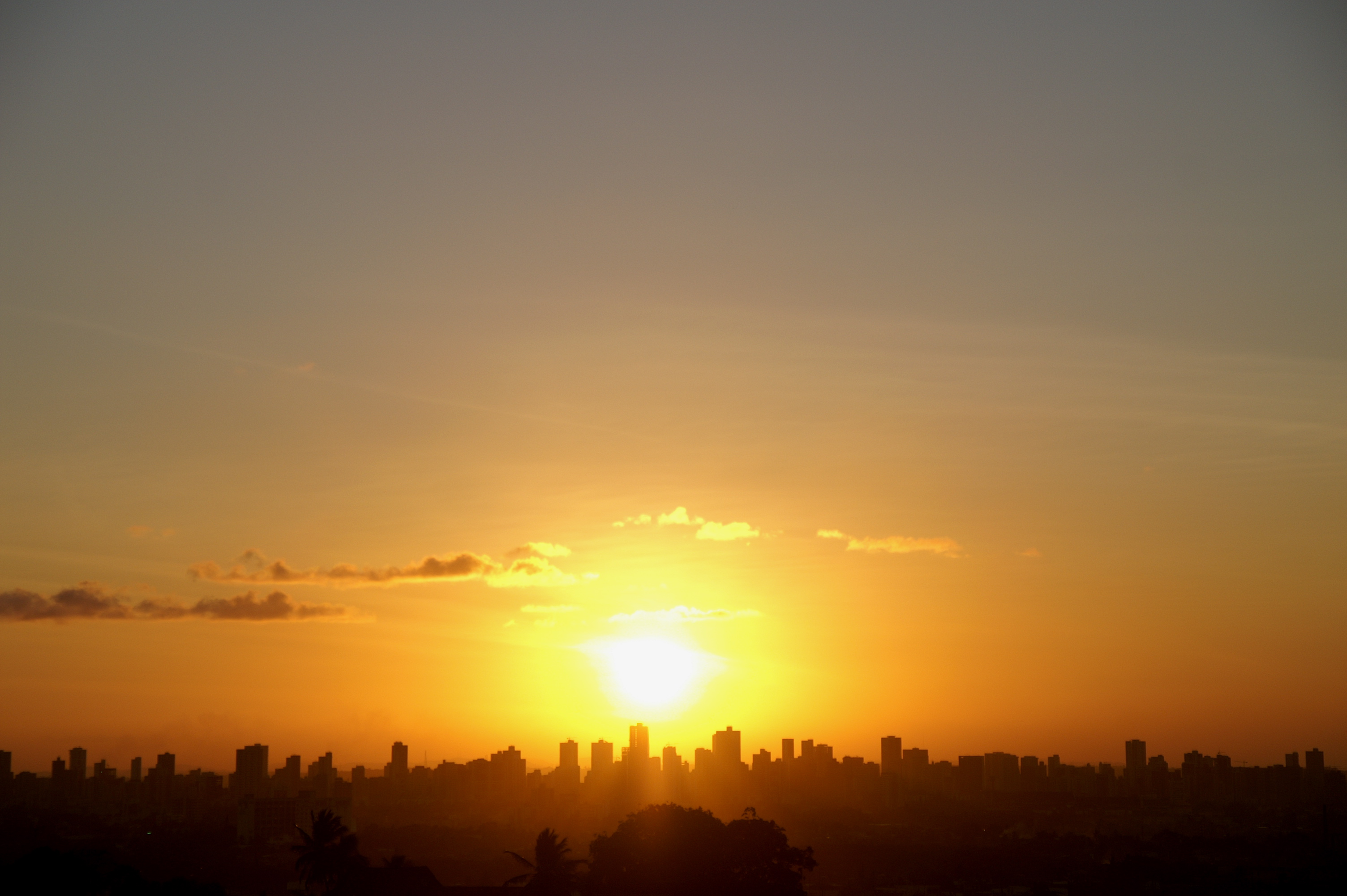 Sunset over Recife, Brazil (seen from Olinda)